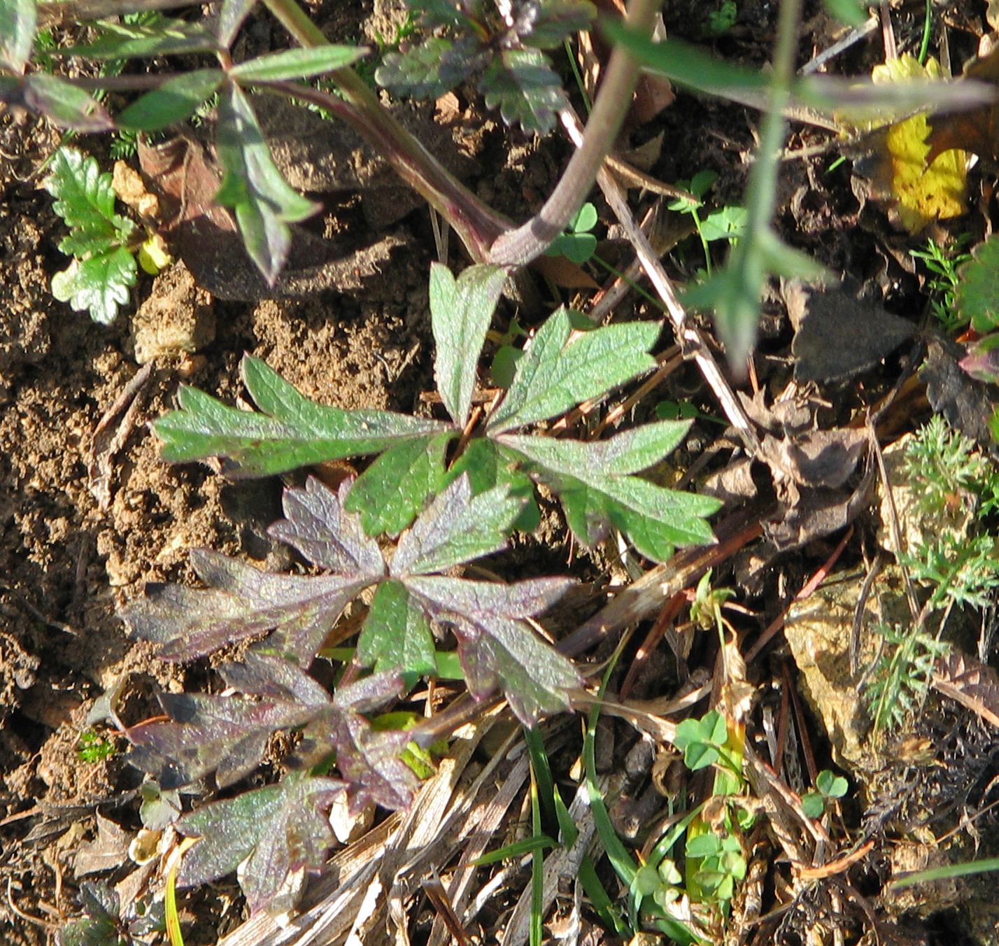 Pimpinella saxifraga subsp. saxifraga, leaves